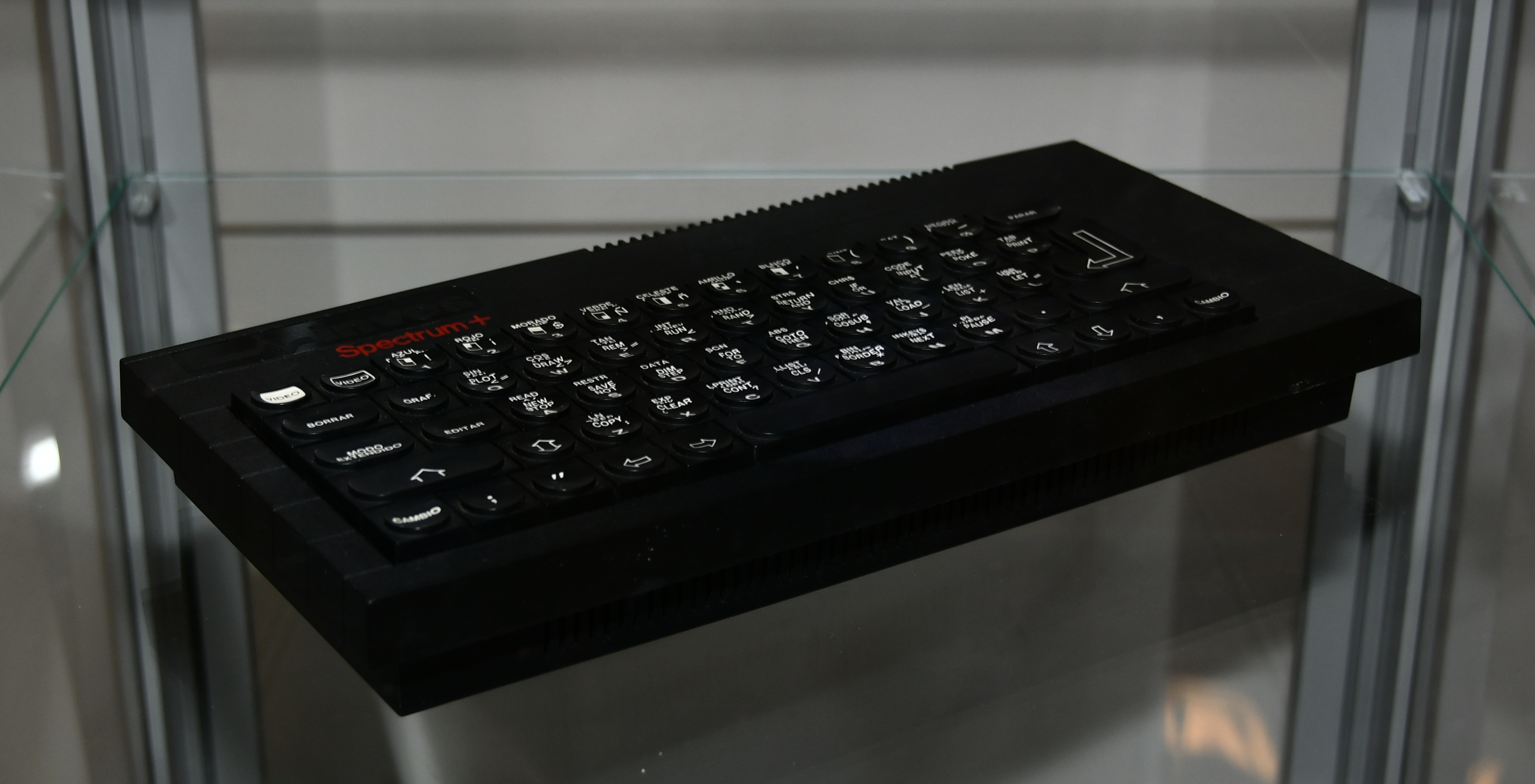 Inves Spectrum+, an authorised version of the Spectrum+ by Spanish firm Investronica